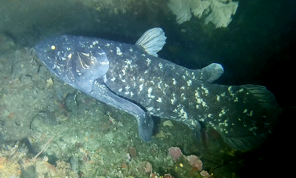 Coelacanth off Pumula on the KwaZulu-Natal South Coast, South Africa, on 22 November 2019 (photo: Bruce Henderson).